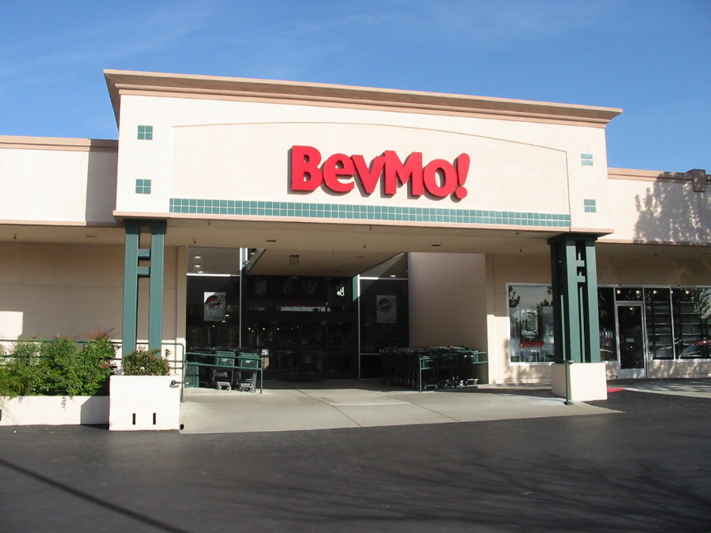 Photograph of the front entrance of the first BevMo! retail store in Walnut Creek, California.